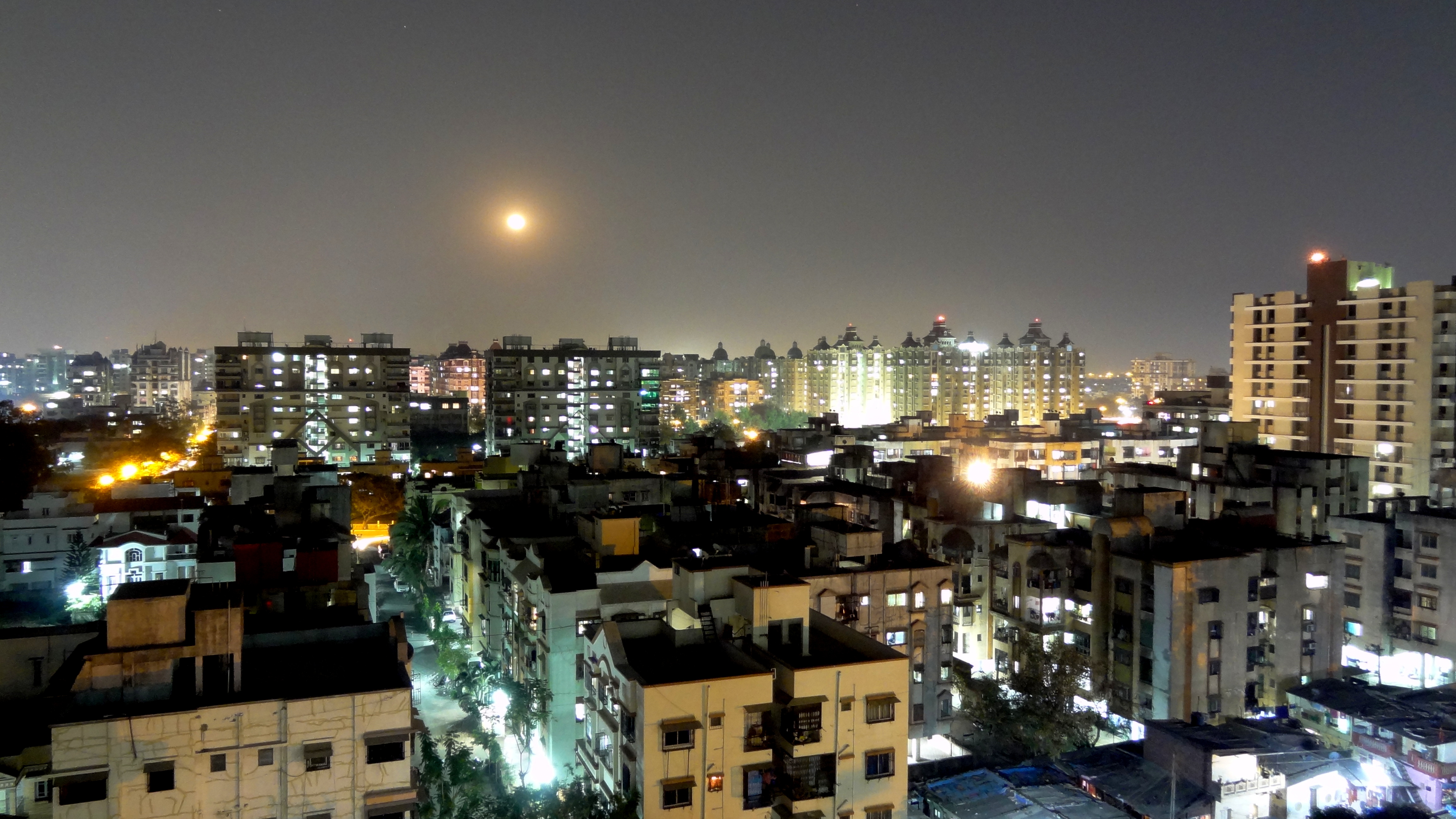 Arial view of the city